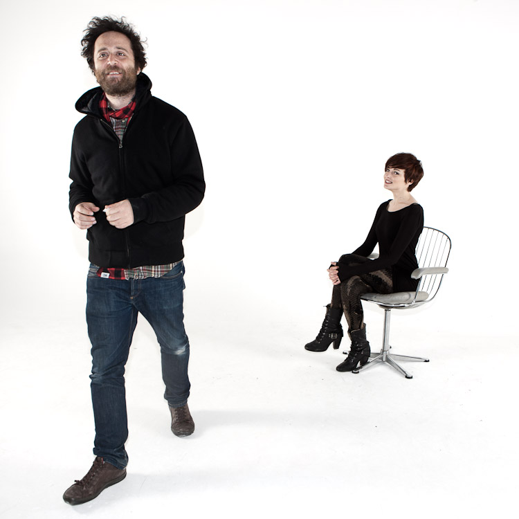 heather buckley Follow me on Twitter I have a Facebook Photography page where I upload lots of images and chat with peeps. Please join